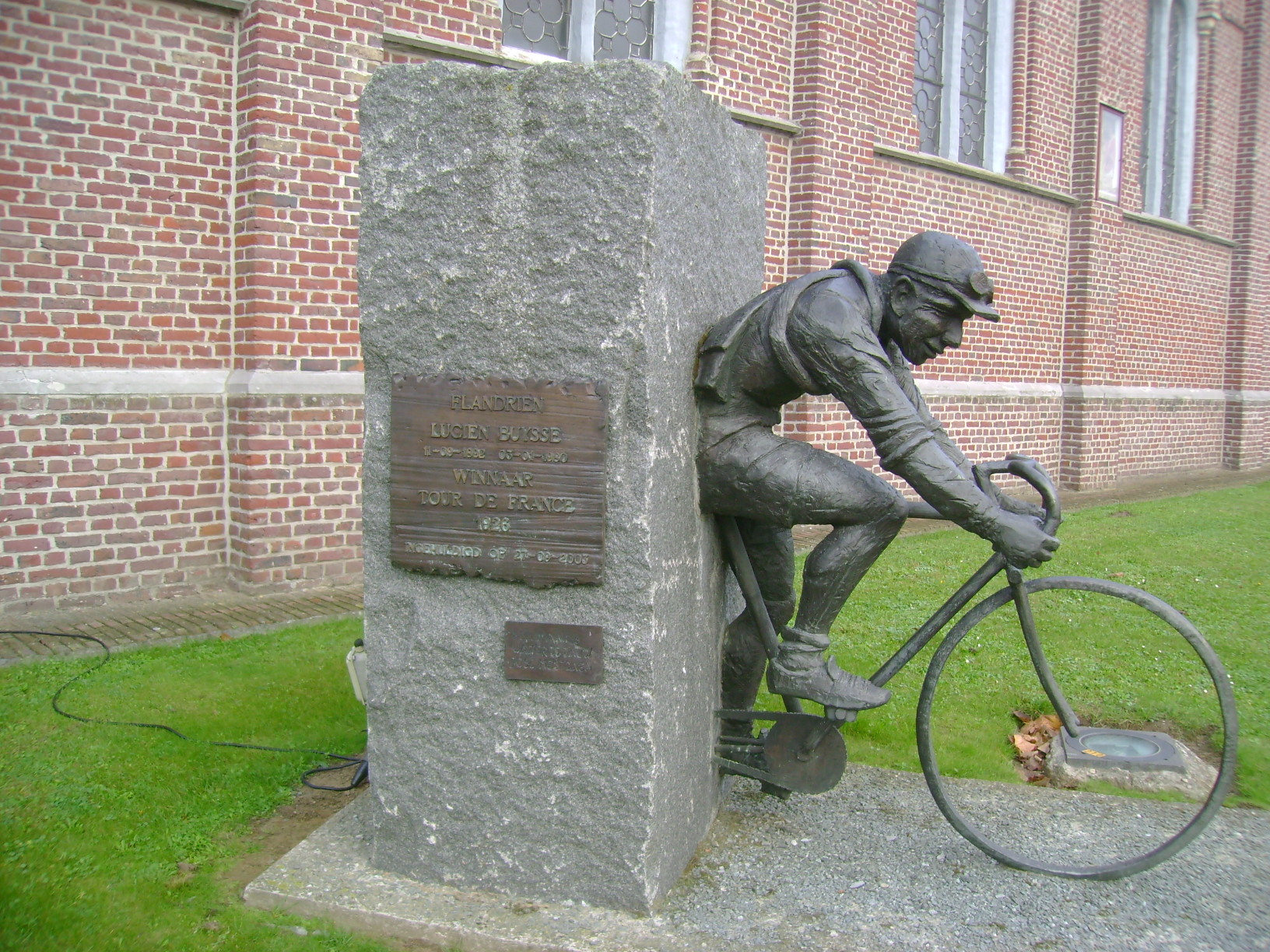 Memorial Lucien Buysse at Wontergem.